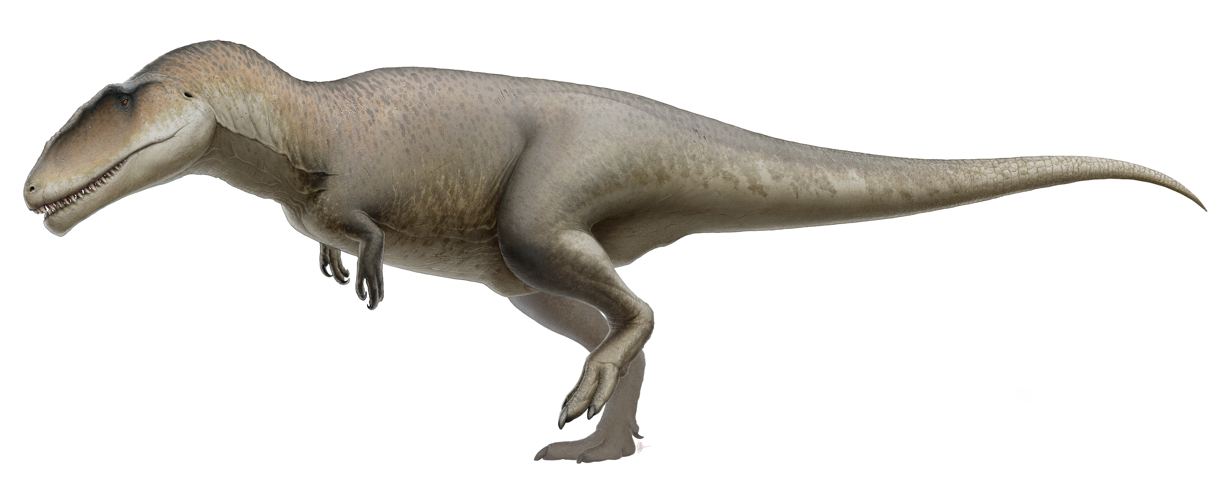 Carcharodontosaurus reconstruction. Based on Giganotosaurus (Hartman), with anatomy based on Sereno et al. (1996).